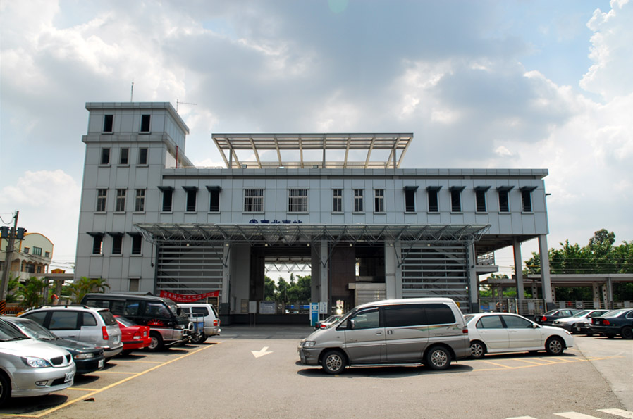 JiaBei Station is a small local train station of Taiwan's Western main rail line. It's located in north part of Chiayi City. The station is newly built according to TRA's reform policy focusing on its urban mass transportation ability.